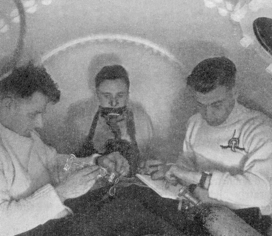 Subject breathing oxygen under pressure. Testing for oxygen toxicity in divers by UK Government 1942–1943.